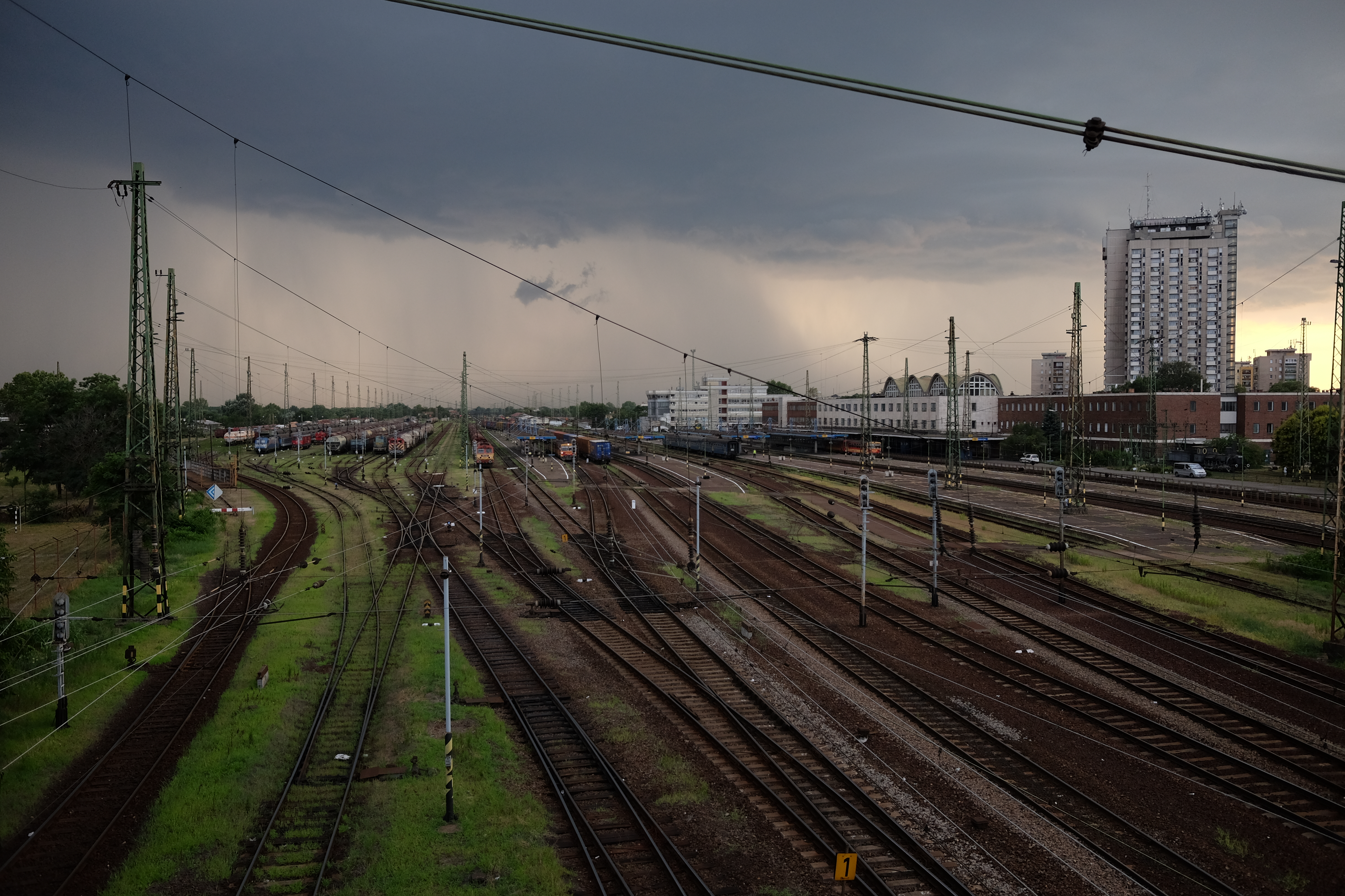 Debrecen railway station and railway area, evening of 23 July 2017.